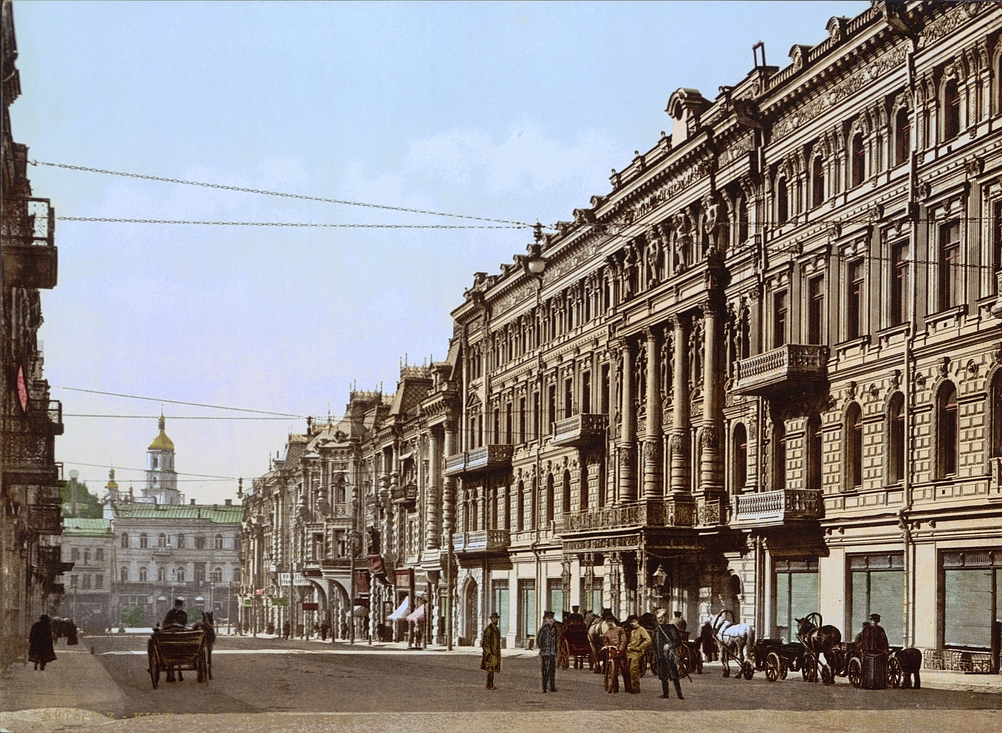 Nikolayevskaya street and hotel "Continental" in Kiev, Russian Empire (now Ukraine).